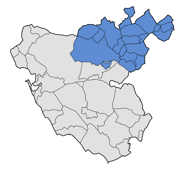 Map of Sierra de Cádiz region, on province of Cádiz